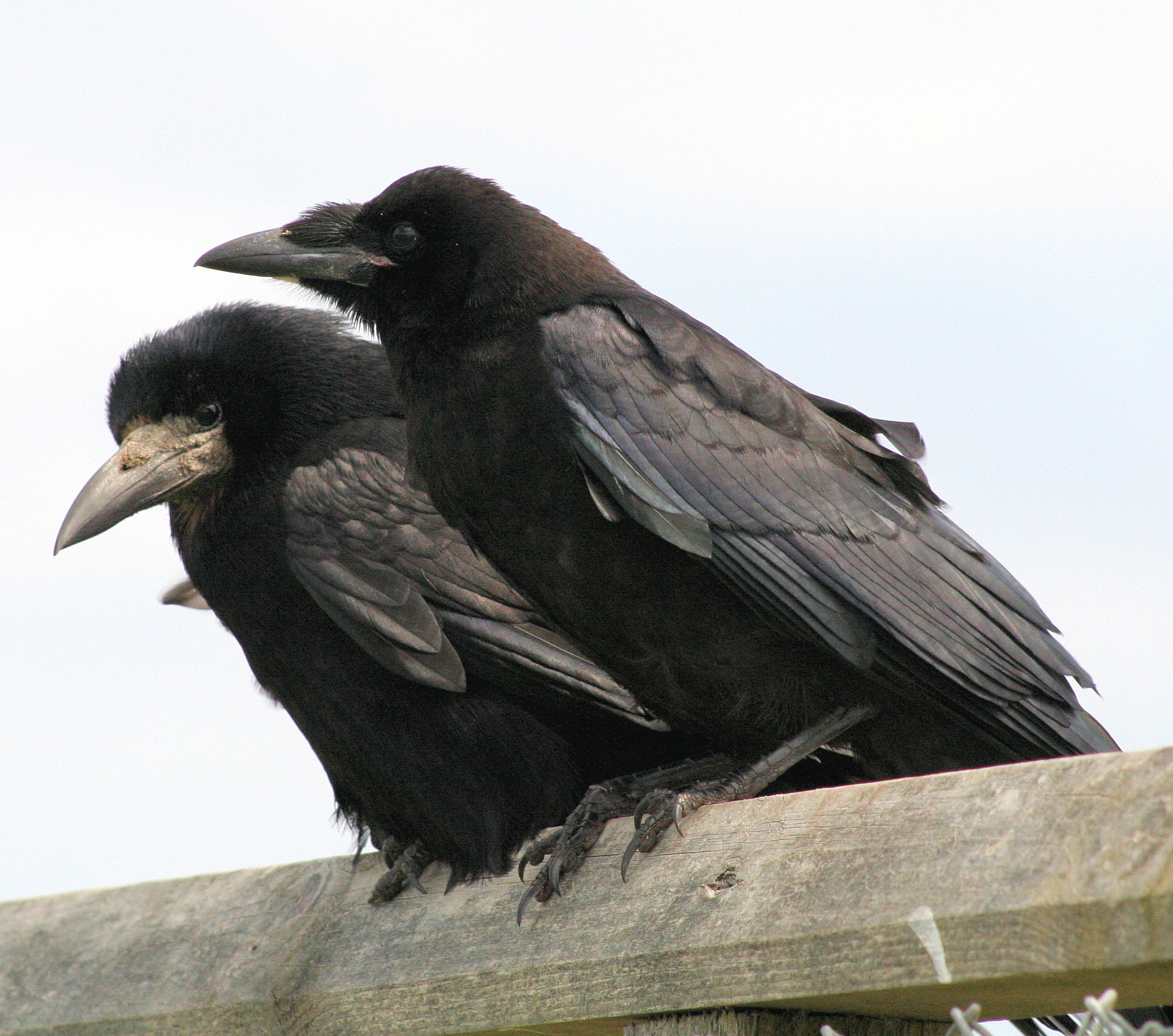 Adult (background) and juvenile (foreground) Rook (Corvus frugilegus) in Dornoch, United Kingdom.